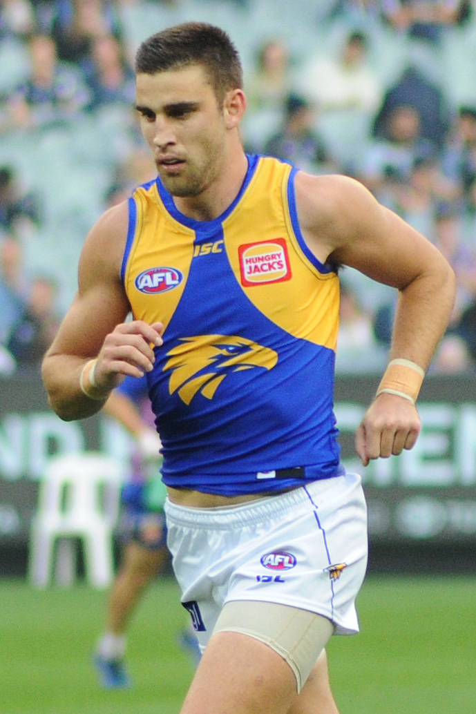 Elliot Yeo during the AFL round five match between Carlton and West Coast on 21 April 2018 at the Melbourne Cricket Ground in Melbourne, Victoria.